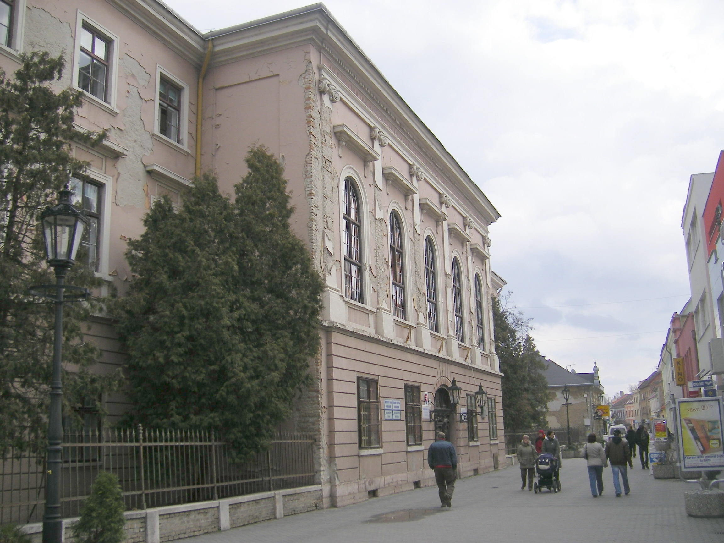 Komárno - old Komárom county seat building.